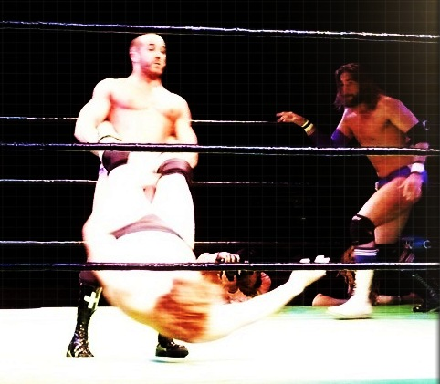 Claudio Castagnoli swinging an opponent as Chris Hero waits to dropkick him. Pro Wrestling NOAH European Navigation 2011, Broxbourne Civic Hall, 13 May 2011. Processed using Lo-Fi. Cropped from original.